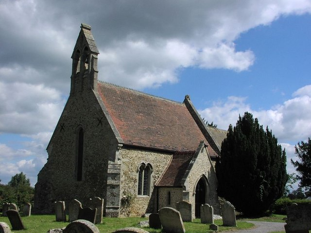 Mepal Church Contains the monument to the Fortrey's. TL4482